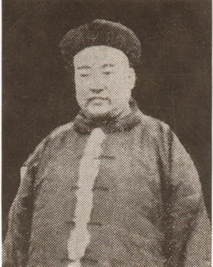 Lianjia, politician of the late Qing Dynasty.